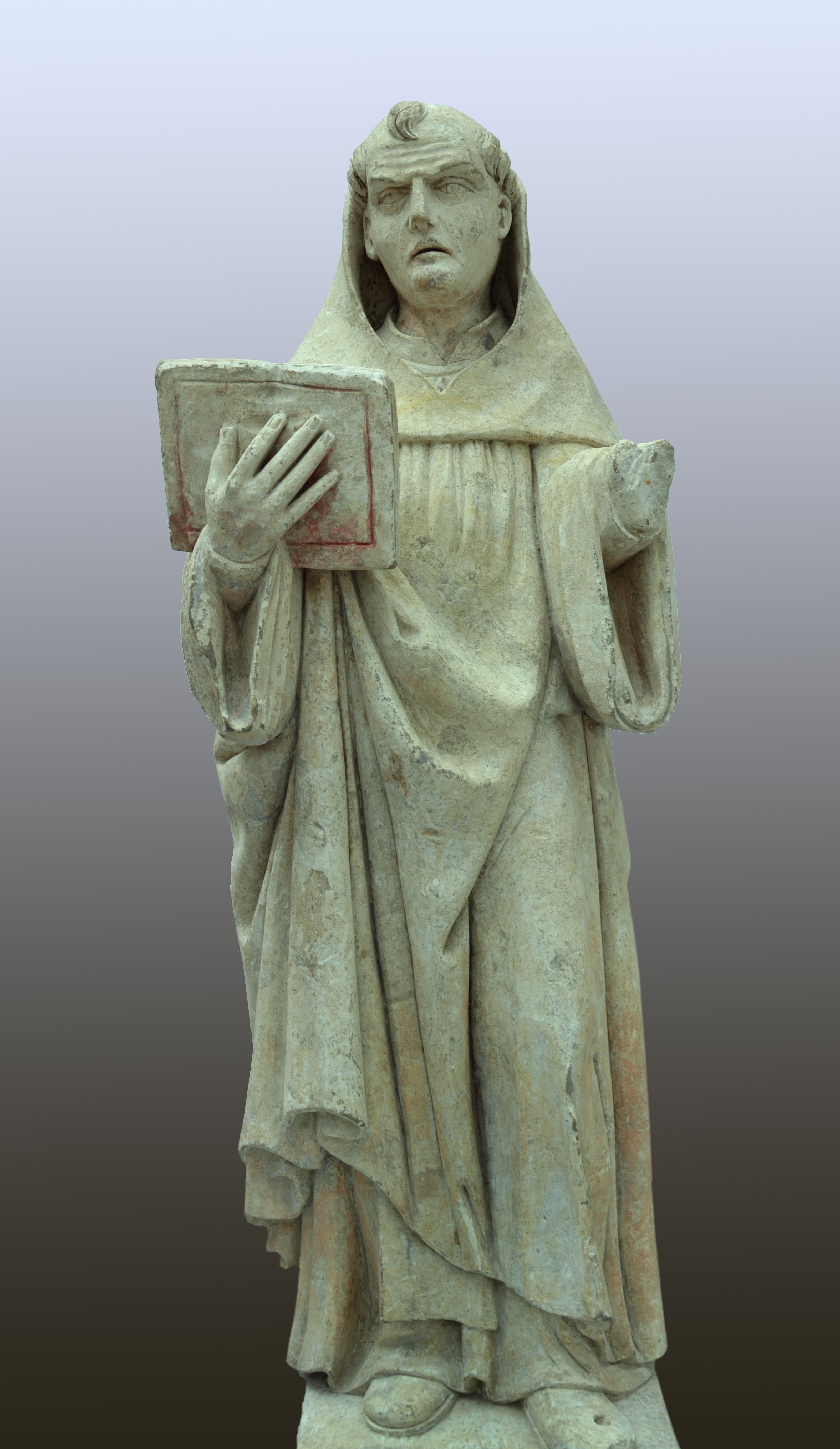 Monk, probably carved circa 1550-1700 (Avesnoi's limestone); Photography done in the Museum restoration room Museum of Fine Arts in Lille. The statue is being restored and cleaned by Sabine Kessler and Julie André-Madjelessi. it's a part of a group of four sculptures discovered in 2013 in a pit in Orchies, and called "Belles du nord".